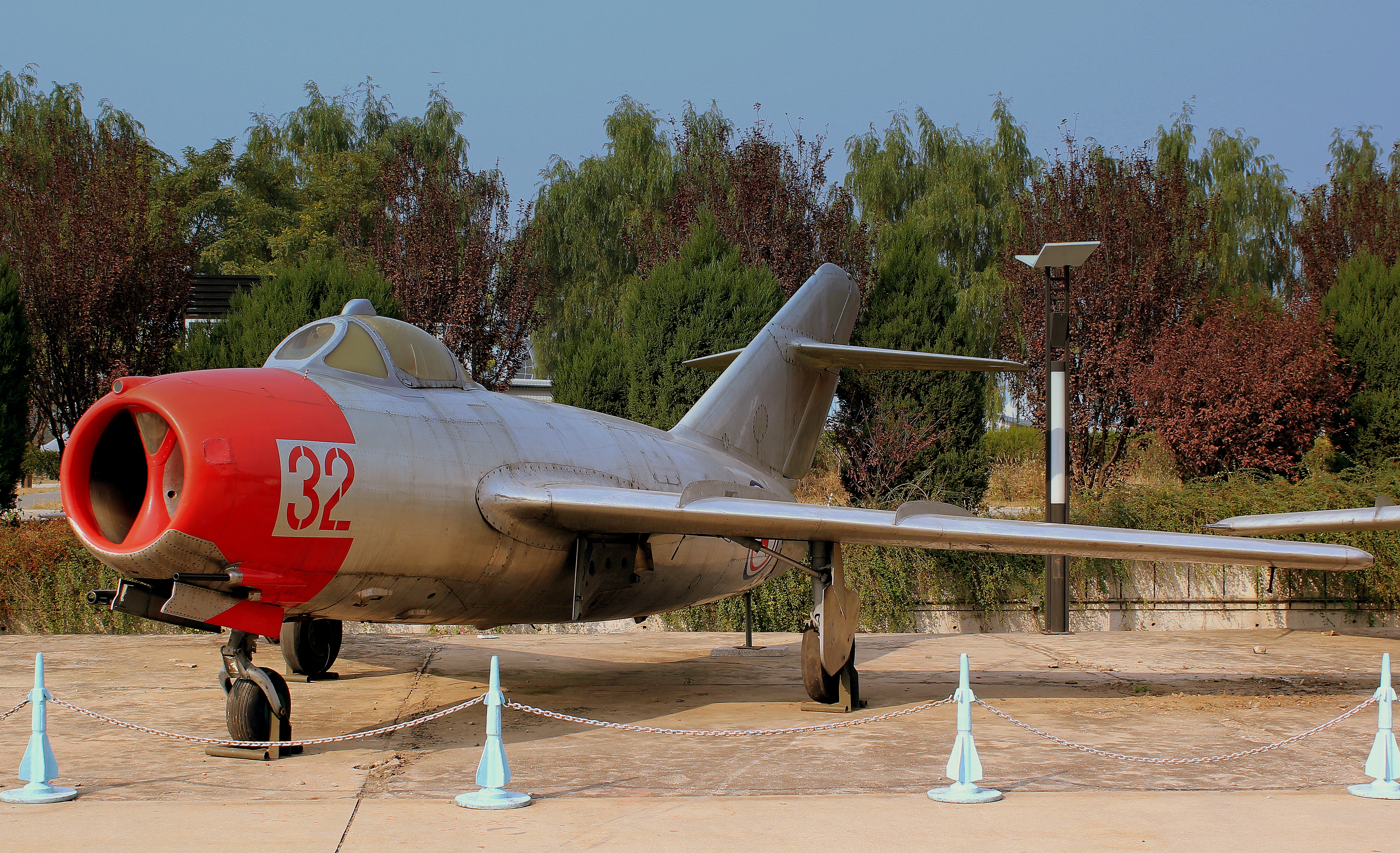 DATANGSHAN AVIATION MUSEUM BEIJING CHINA OCT. 2012